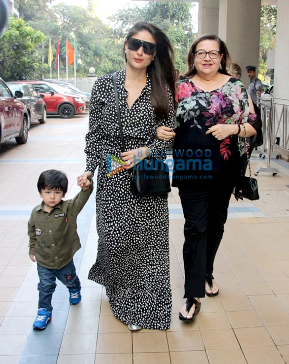 Taimur Ali Khan, Kareena Kapoor Khan, Tusshar Kapoor and others snapped at Sea Princess